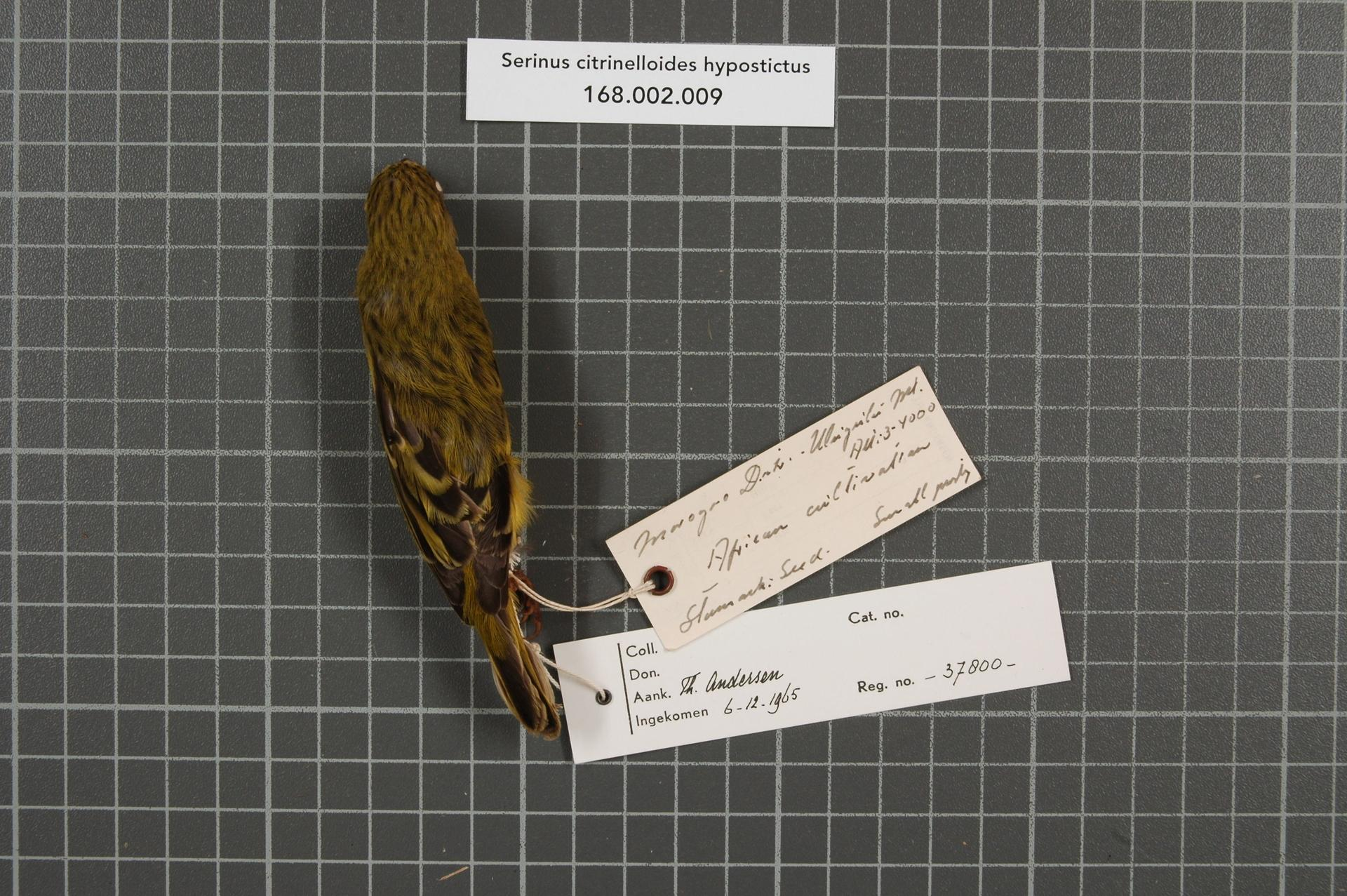 Serinus citrinelloides hypostictus (Reichenow, 1904)